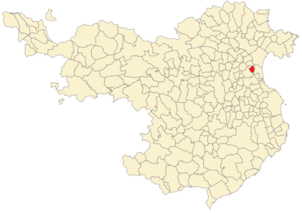 Vilamacolum